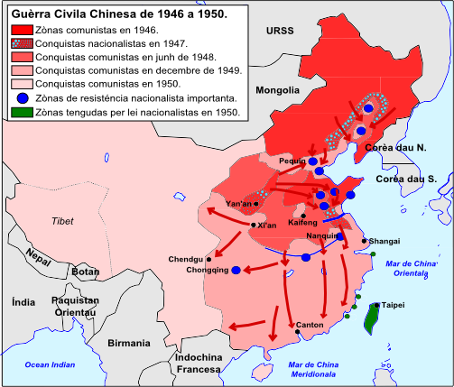 Evolution of the Chinese Civil War between 1946 and 1950.